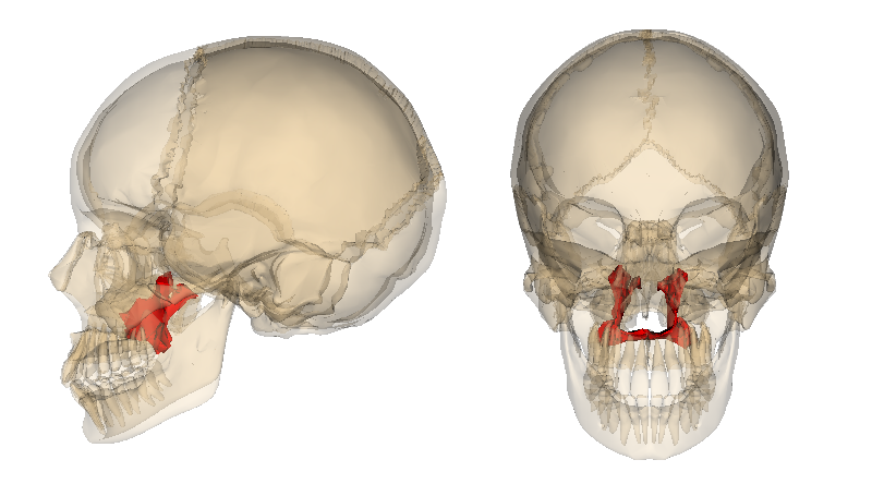 palatine bone. Images are from Anatomography maintained by Life Science Databases(LSDB).